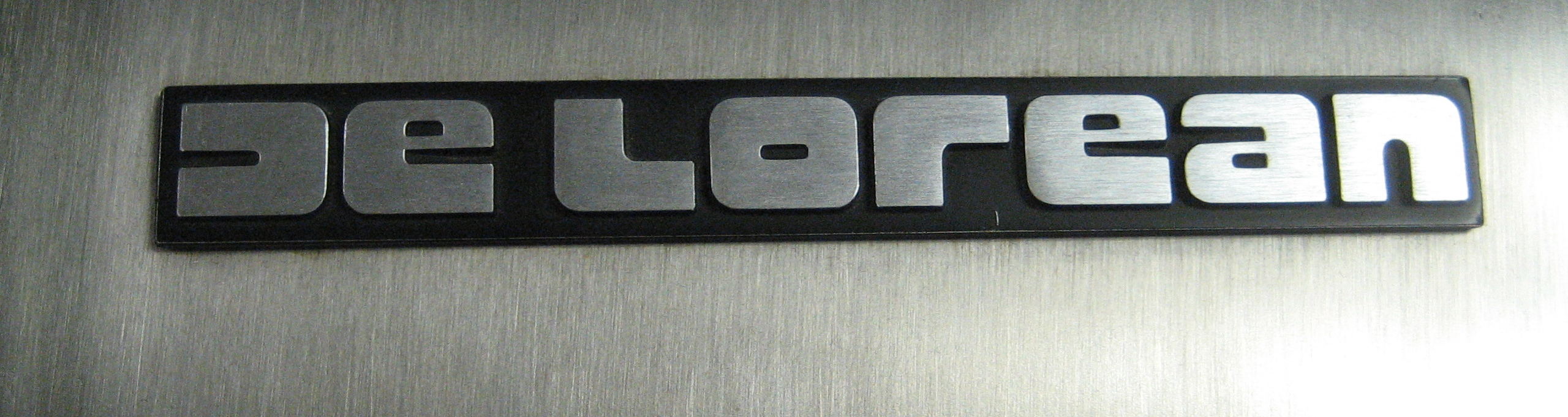 1983 De Lorean DMC-12 automobile on display at Tallahassee Automobile Museum. Detail of "De Lorean" logo on hood.